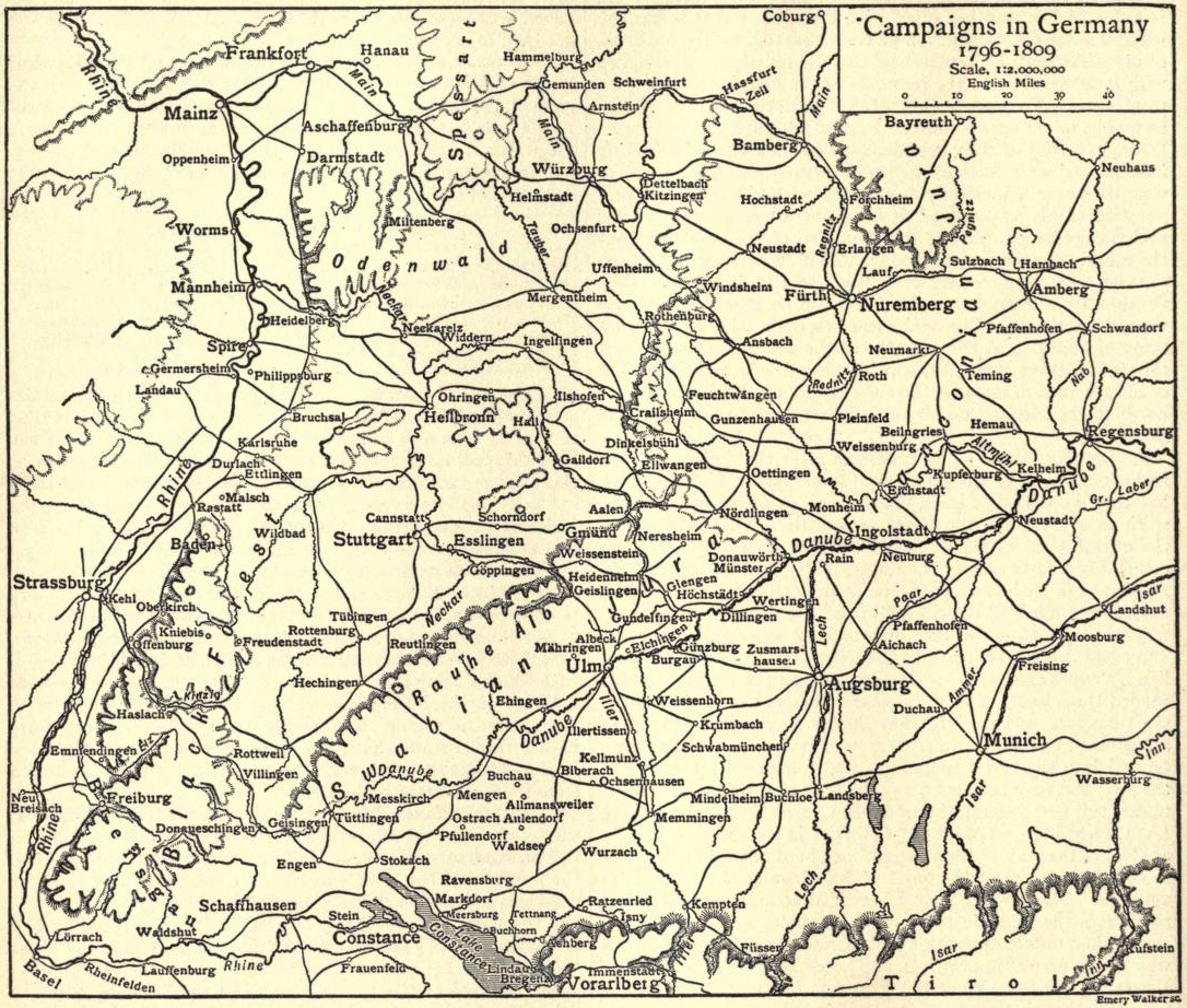 Napoleonic Campaigns: Campaigns in German 1796-1809